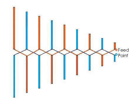 自己補対アンテナの説明図